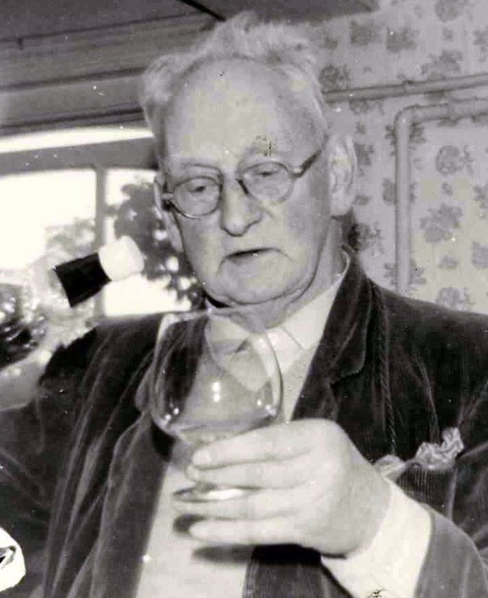 Neill on his birthday.